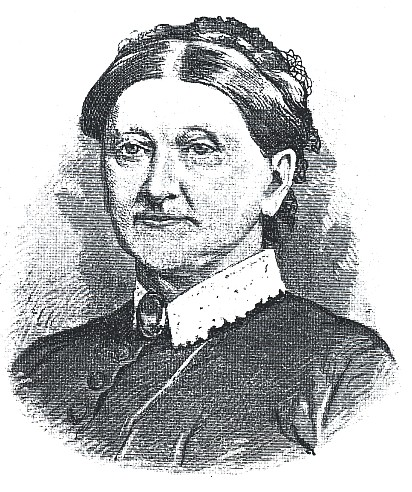 German writer Franziska von Fritsch (1828-1904)